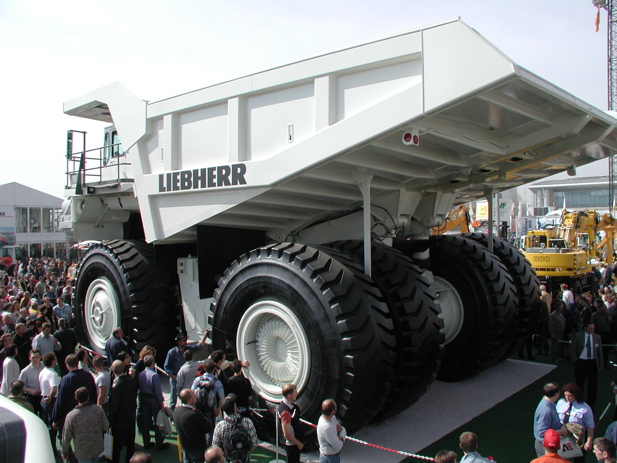 Liebherr mining truck type T282B at the Bauma exibition, Munich, Germany, april 2004. The worlds largest truck. Rear view. – The truck on the image was manufactured in Chicago in the USA and transported in parts by ship to Europe arriving in Bremen harbour in januari. The transportation of all parts down to Munich, assembly of the complete machine and start-up took almost 3 months, just in time for the opening day at Bauma in april. The wheels were manufactured in Spain and transported by special trucks to Munich. Technical data: Max weight, including load: 600 ton. Max load: 363 ton. Empty weight: 237 ton. Max. speed: 64 km/h. Powertrain, transmission: Diesel electric transmission. Main engine: 3650 hp, @1800 rpm.